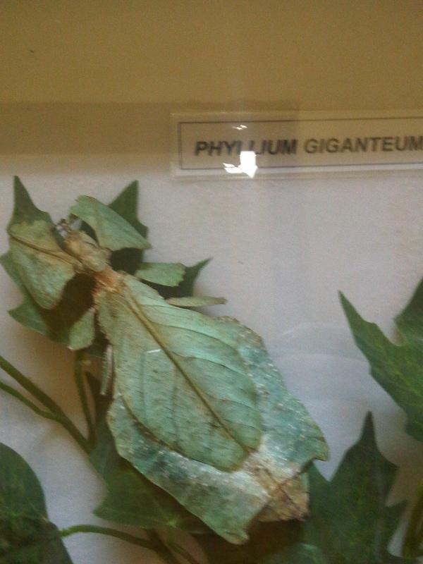 Phyllium giganteum at the National Museum of Natural History, Vilhena Palace, Republic of Malta.